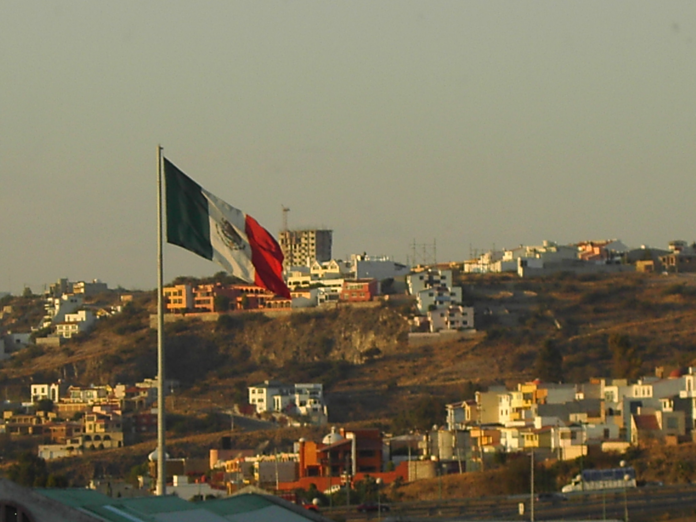 Mexican flag above Querétaro, Mexico.